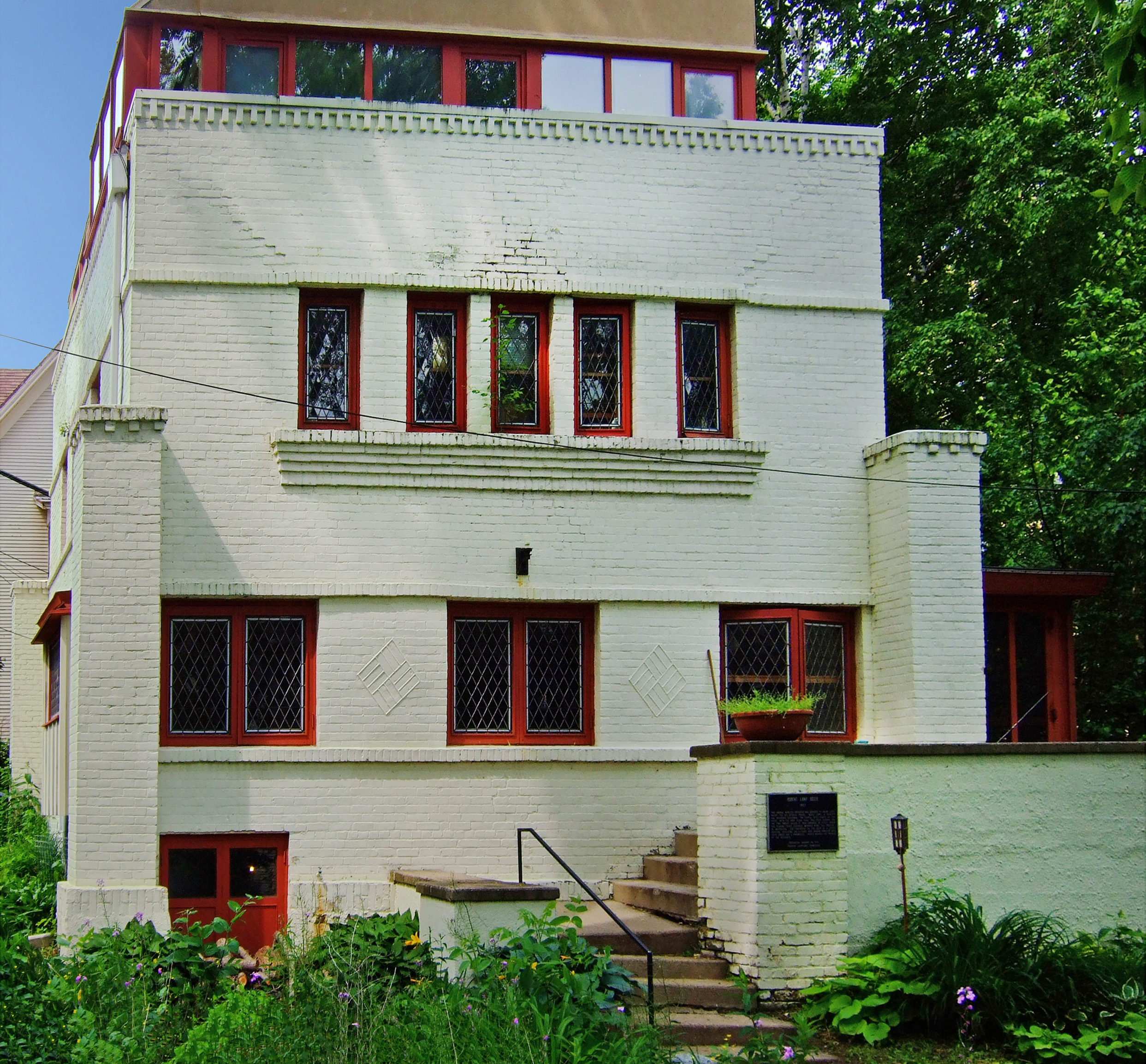 The Robert M. Lamp House (1903) at 22 N. Butler Street in Madison, Wisconsin, was added to the National Register of Historic Places in 1978. This unusual midblock residence was designed by Frank Lloyd Wright for his boyhood friend, "Robie" Lamp, a realtor and insurance salesman. Some elements of the design have been attributed to Walter Burley Griffin. The simple, boxy shape of the house, with its open floor plan, was very modern for the time. Wright called it "New American" in style, while the diamond-paned casement windows were "Old English" in inspiration. It marks a transition between the Chicago School and the Prairie School styles. The penthouse on the roof is a later addition, replacing an elegant roof garden complete with grape arbors and a greenhouse.